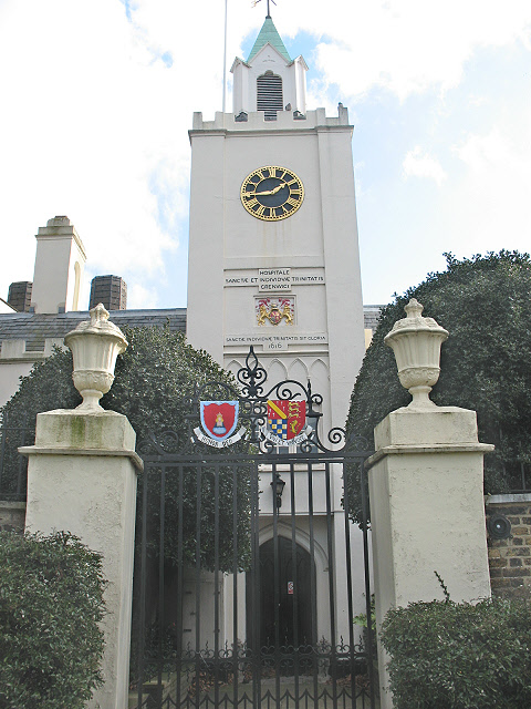 Riverside entrance to Trinity Hospital, Greenwich. This was a 'hospital' in the older sense of a retirement home. The inscription under the clock reads 'Hospitale Sanctae et Individuae Trinitatis Grenwici' (Hospital of the Holy and Undivided Trinity, Greenwich) For other views of this building, see 881060 and 926534.